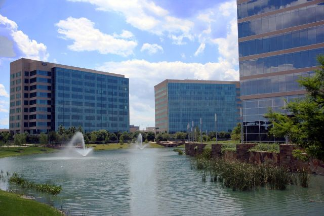 The skyline of Plano Texas at Granite Park